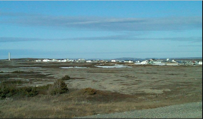 Partial View of Cook's Harbour